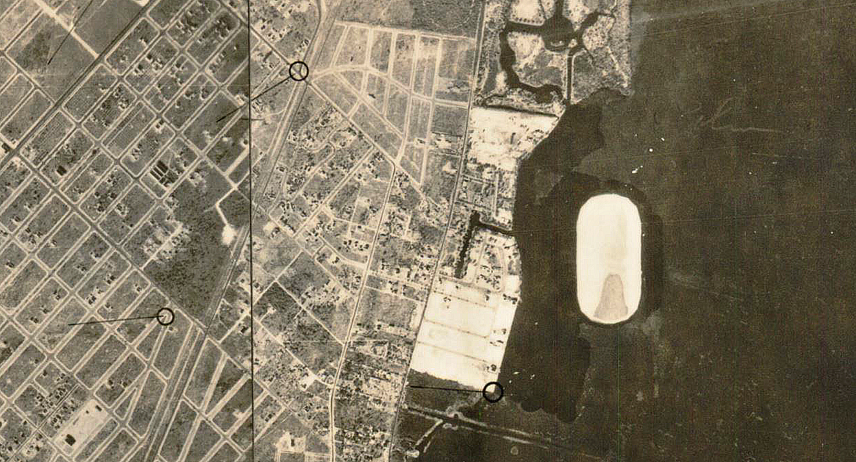 Aerial image shows parts of North Coconut Grove, Silver Bluff and recently built Fair Isle (now Grove Isle) in 1928 Miami Florida